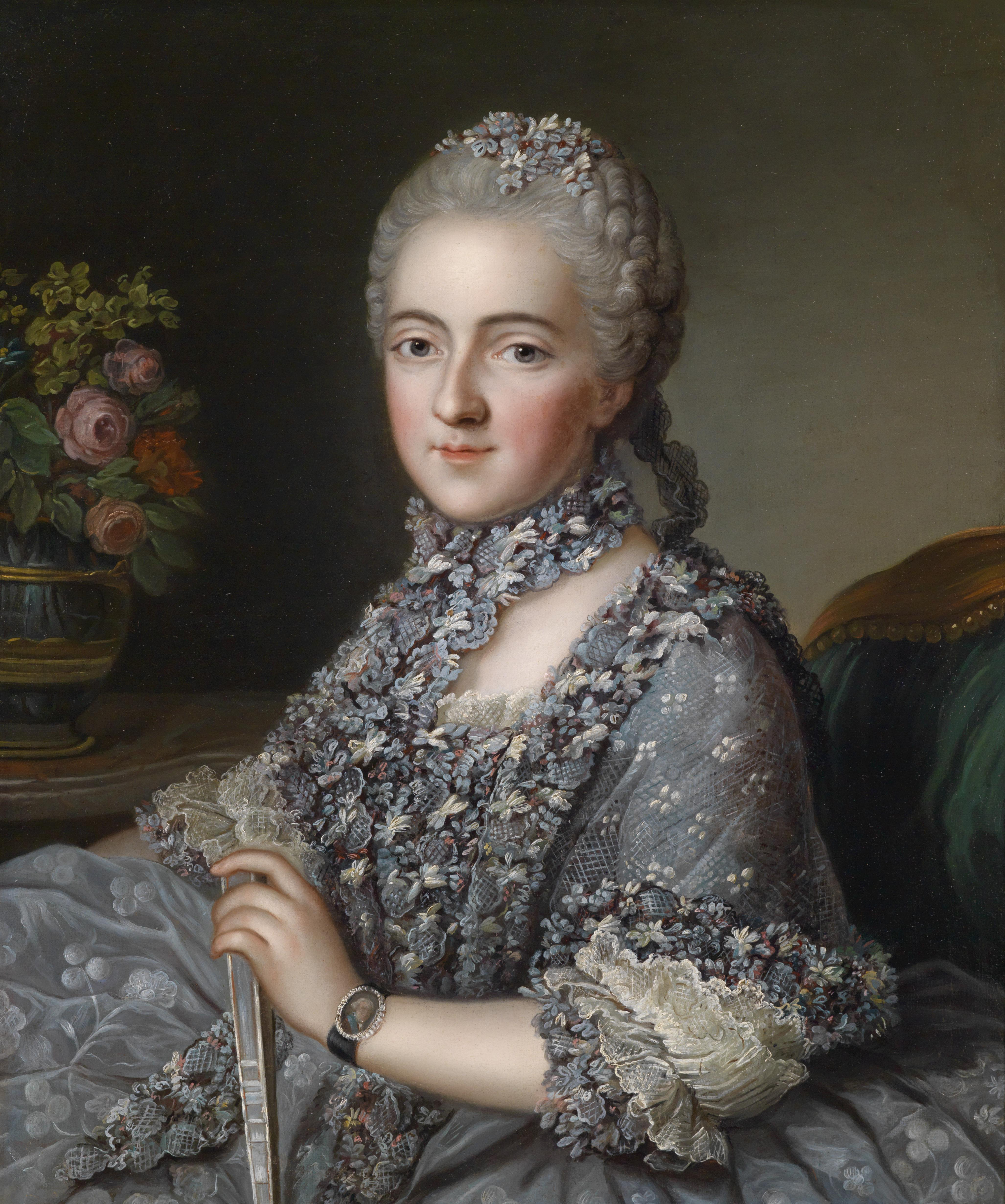 Portrait of a Lady (presumably Louise of France (1737–1787), daughter of Louis XV)